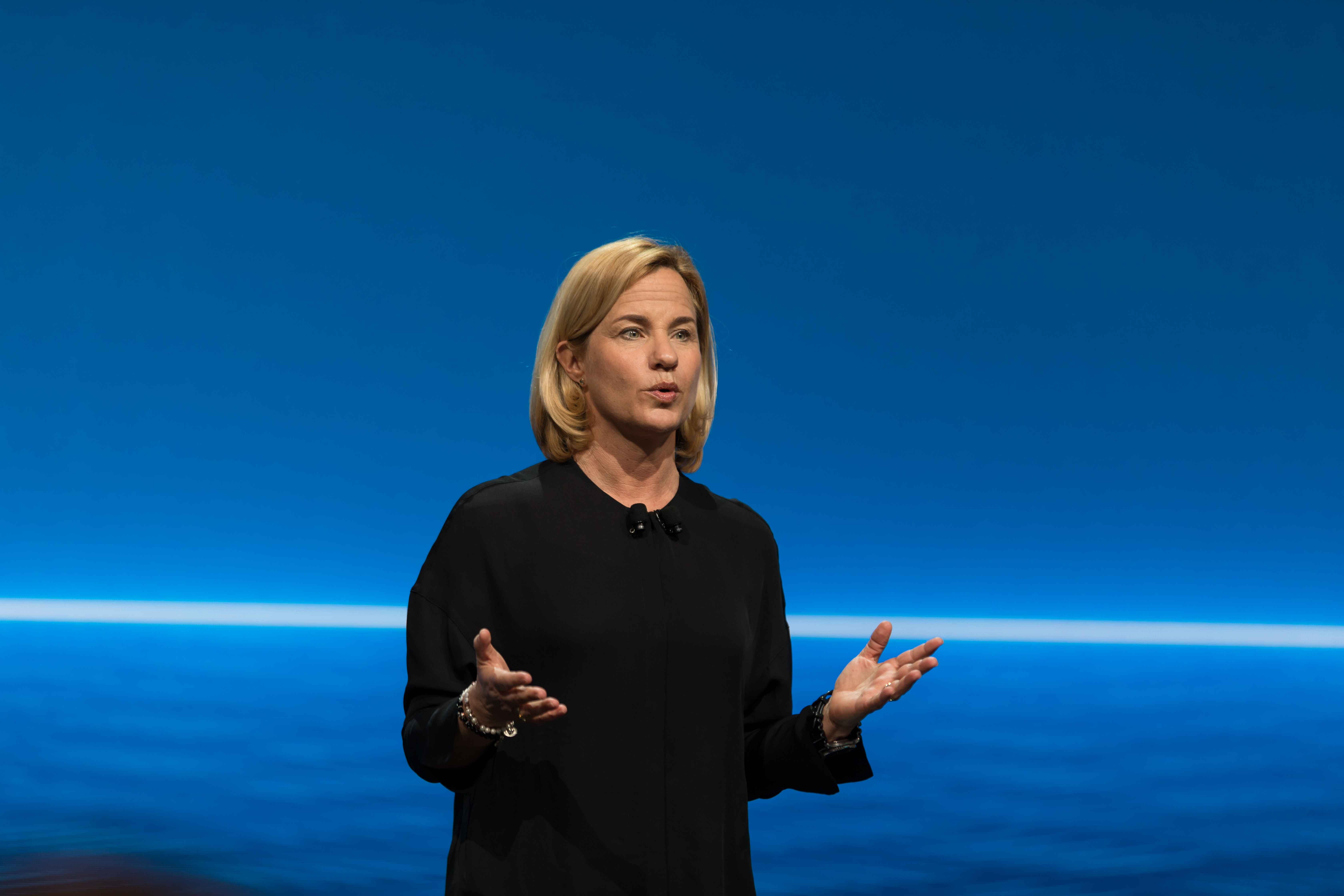 Britta Seeger at Geneva International Motor Show 2018